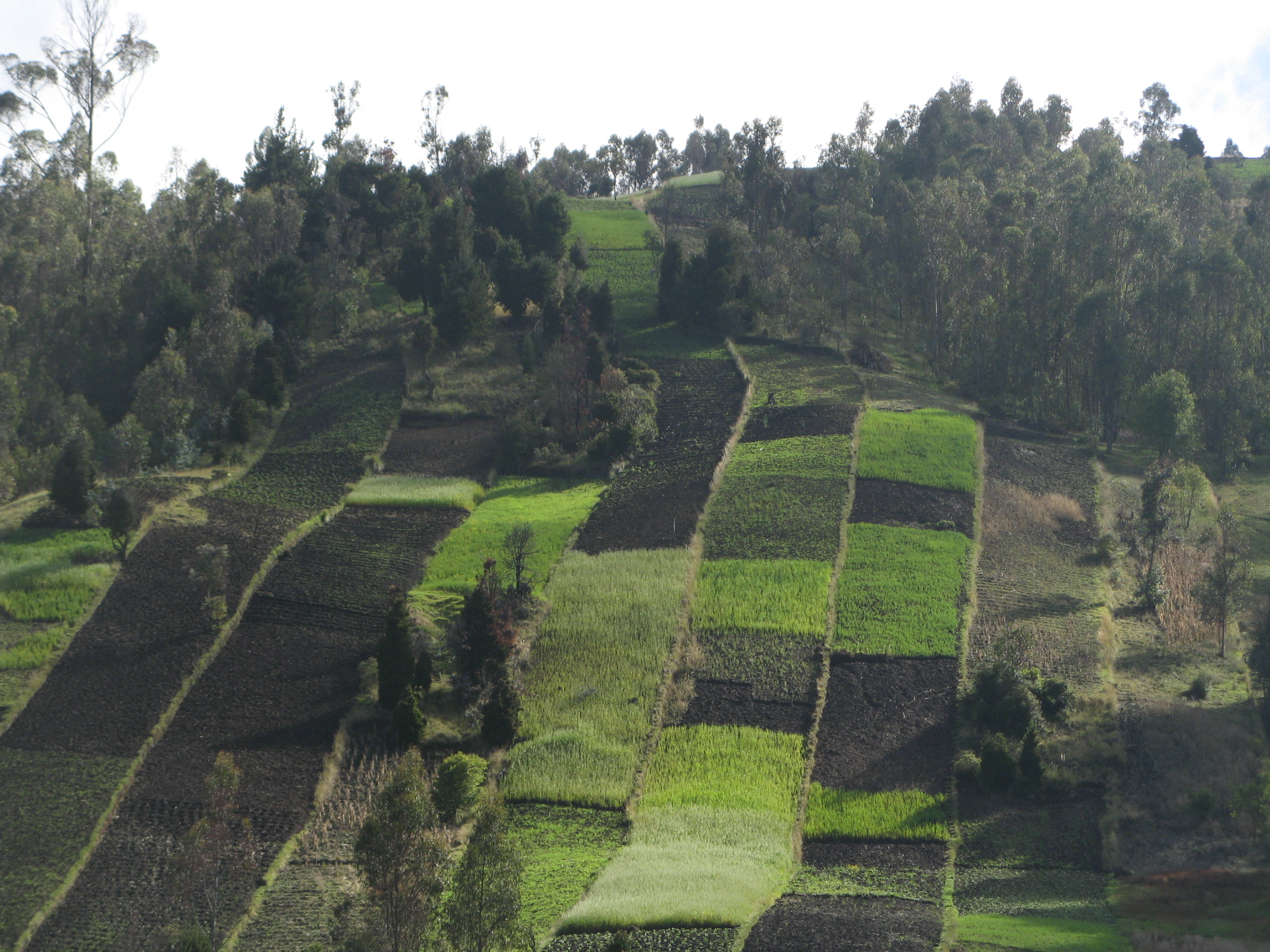 Patchwork of altitude fields in Ecuador mountains